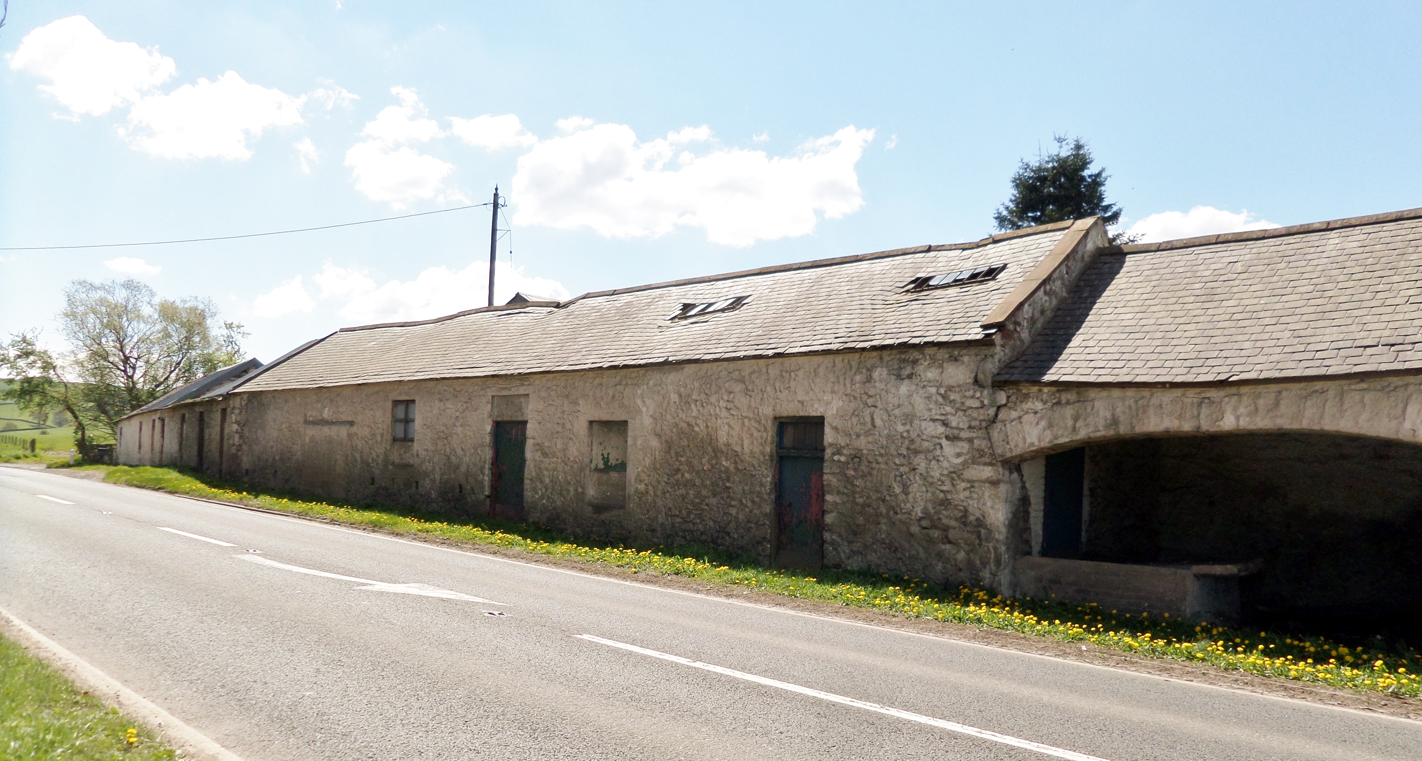 Brownhill Inn, Closeburn - view of the steading and old stables, coach house, etc.